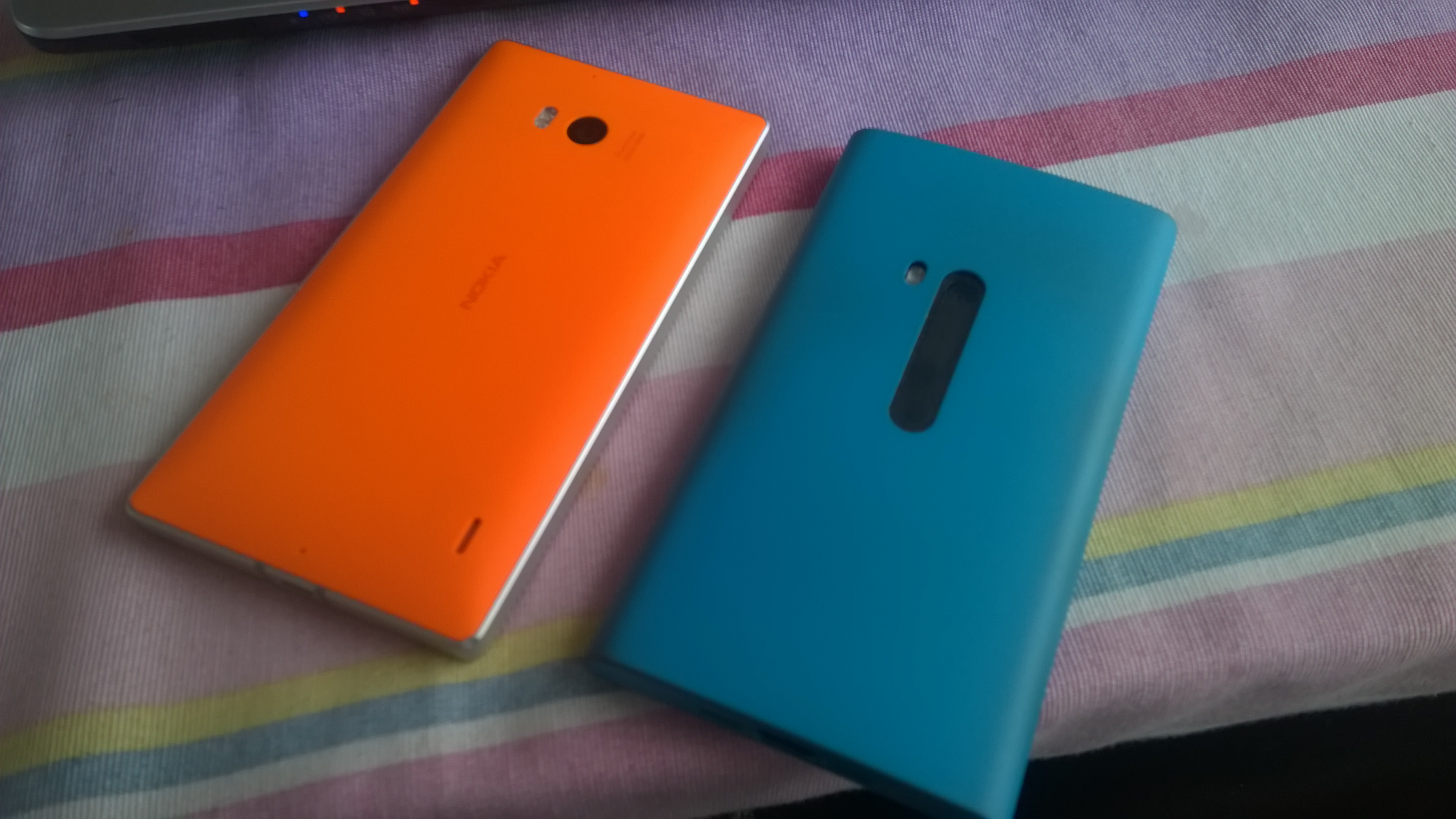 2 flagship Nokia Lumia phones from the 9X0-Series